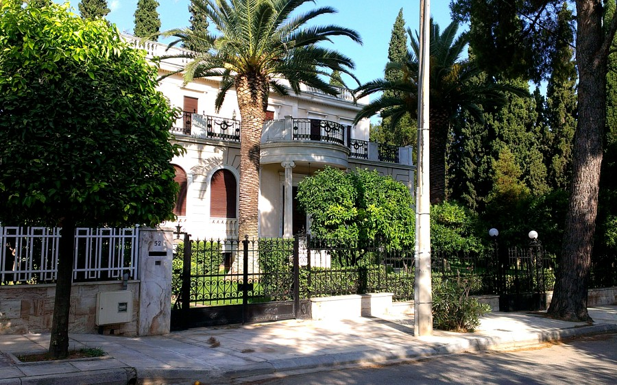 psychikon